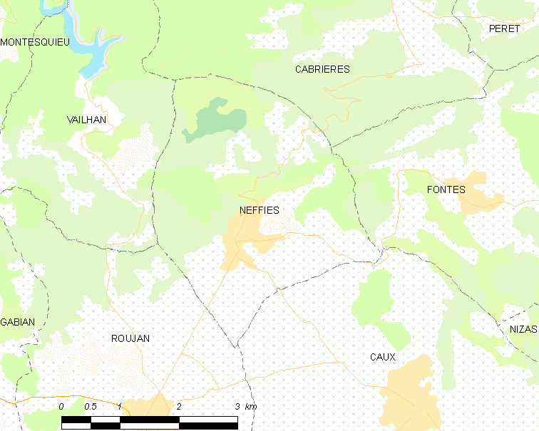 Map commune FR insee code 34181.png - Neffiès